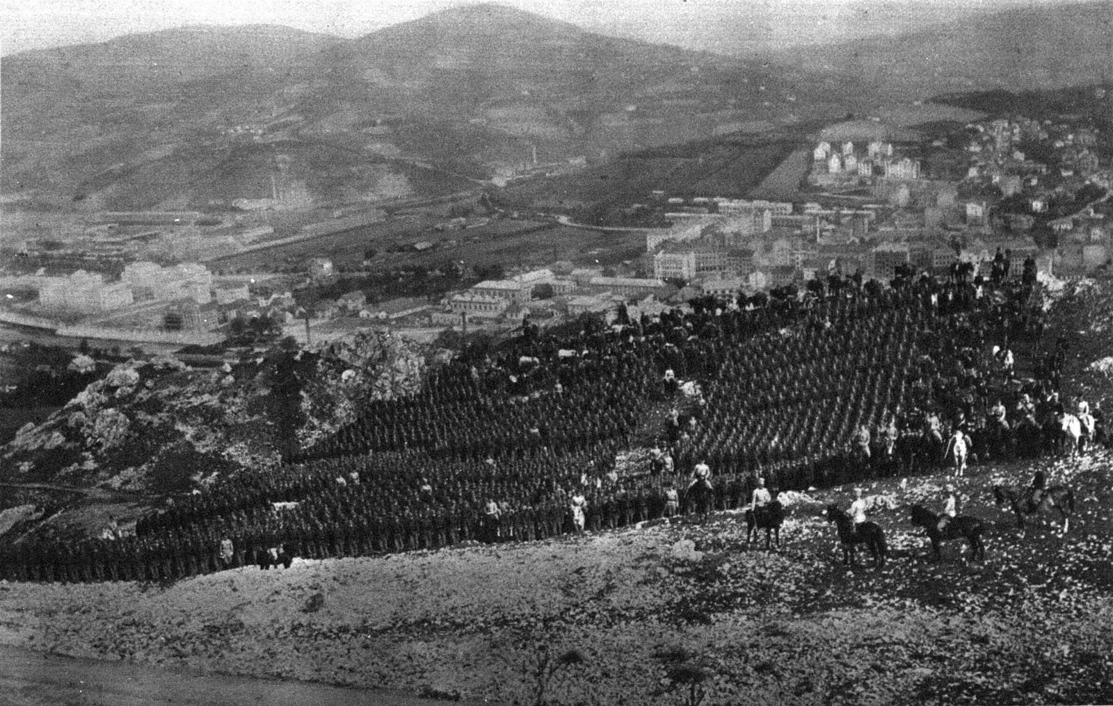 “Mobilized troops of the Austrian "Punishment expedition", sent across Sarajevo, setting out for the "occupation" of Serbia”